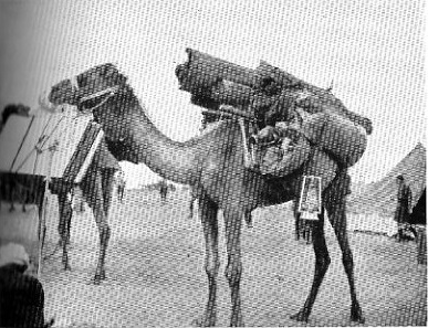 Stores from the Imperial Camel Corps Brigade headquarters packed and ready for transport